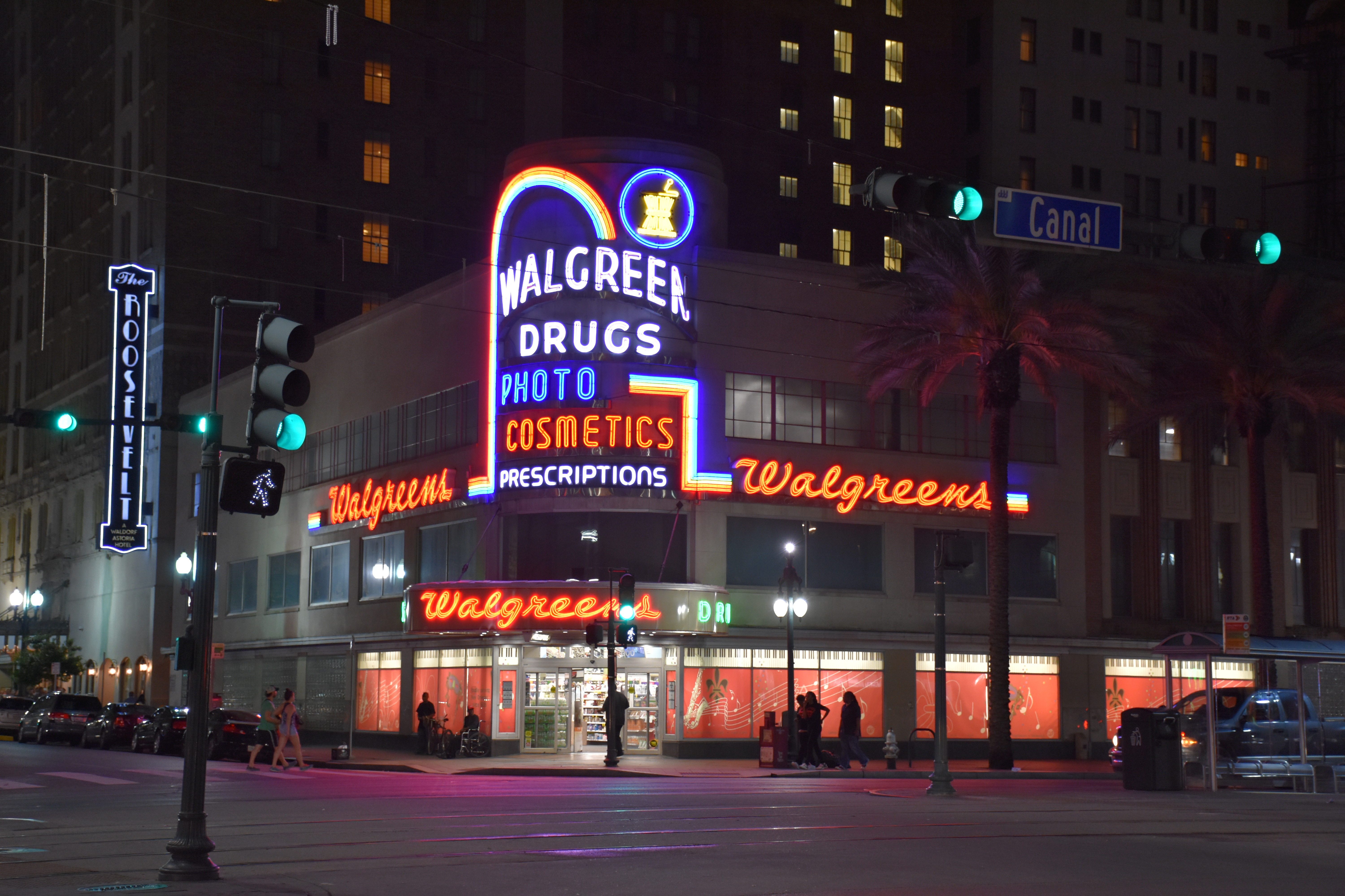 A Walgreens on Canal Street, New Orleans at night